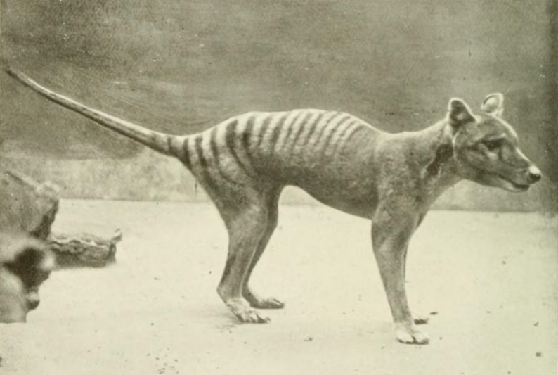 A thylacine